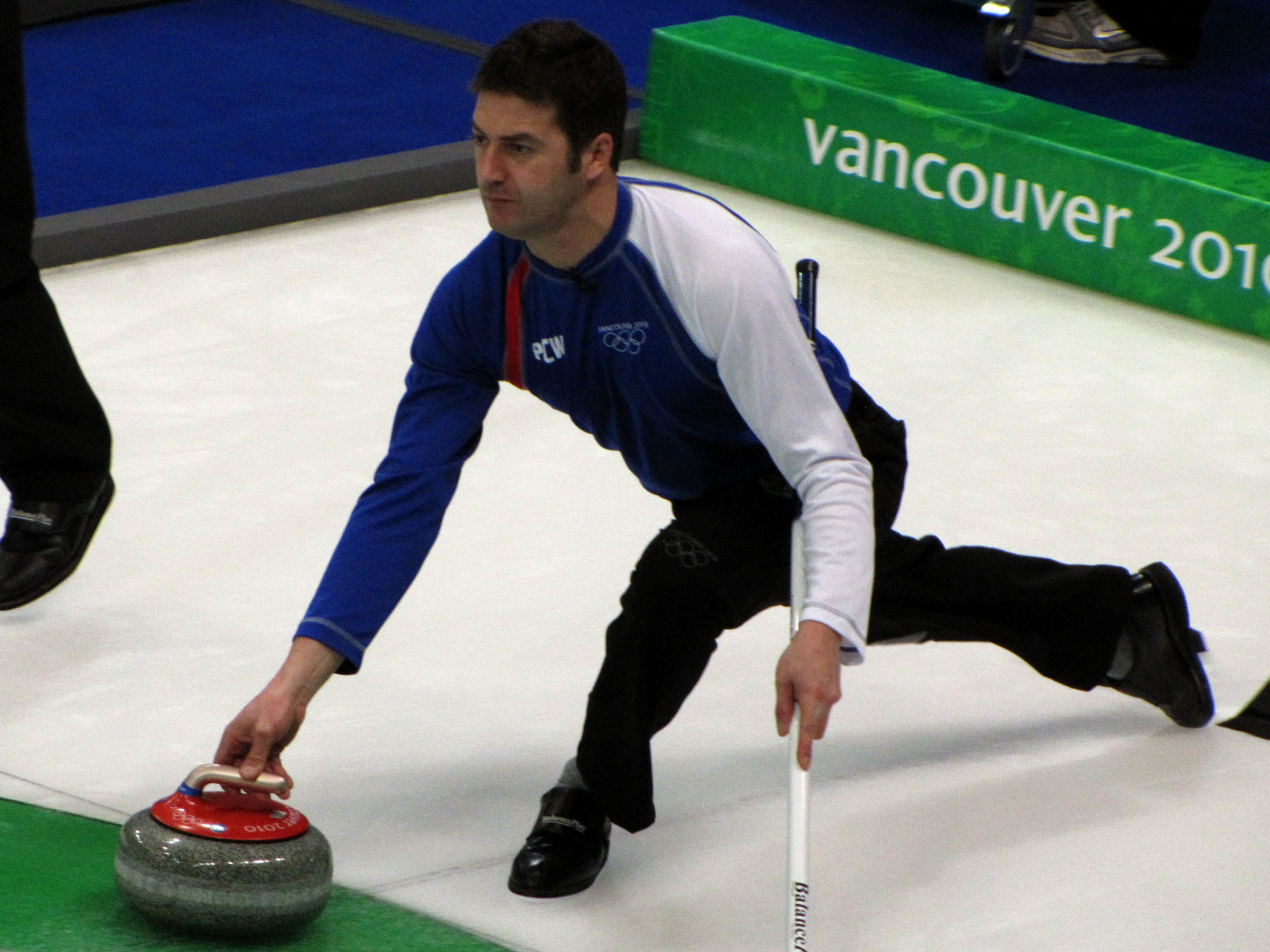 French curler Thomas Dufour at the 2010 Winter Olympic Games, Vancouver, Canada